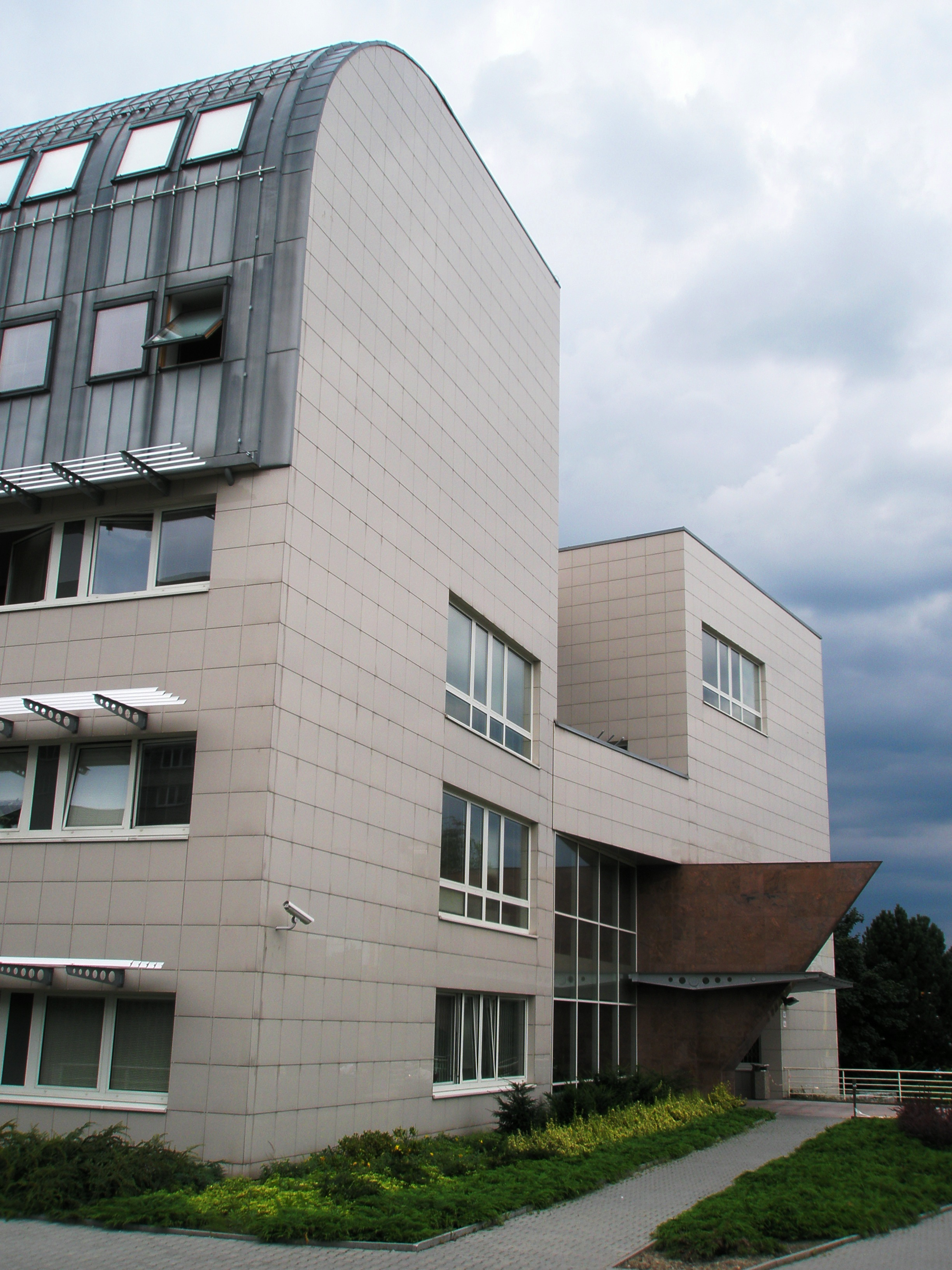 Courthouse in Havířov